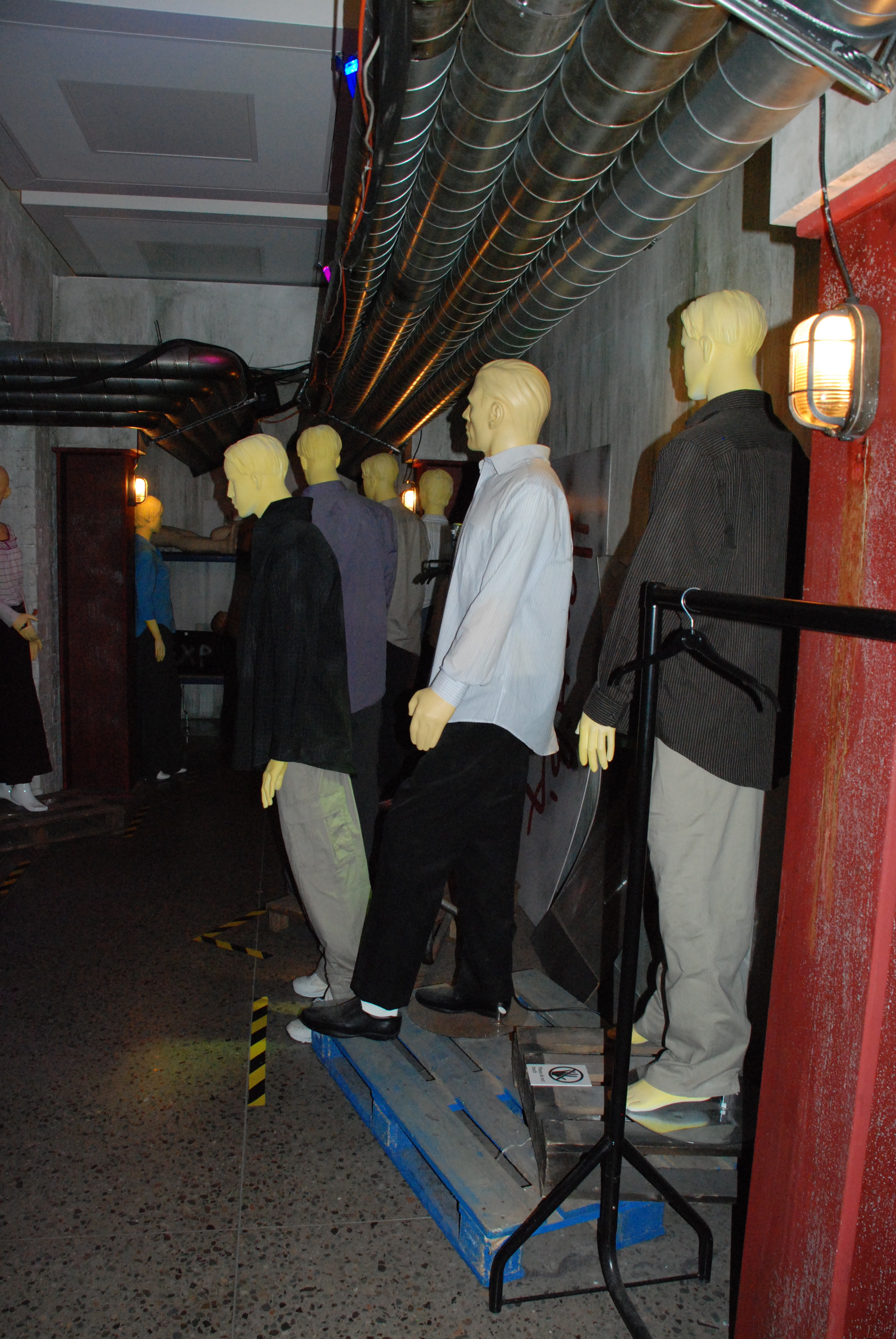 The Dr. Who exhibition at the Kelvingrove Art Gallery is well worth a visit. Of particular interest to me were the numerous examples of pre vis material on display. Lots of examples of storyboards and research materials for sets costumes and of course monsters. The show is great for kids but infants might find it a bit too scary. Particular highlights were the Cybermen and Dalek exhibits which were really interactive and very well done. Good to see these up close. Lots of ideas for halloween costumes from the monsters! Recommended, finishes on 4 Jan 2010. Doctor Who Experience